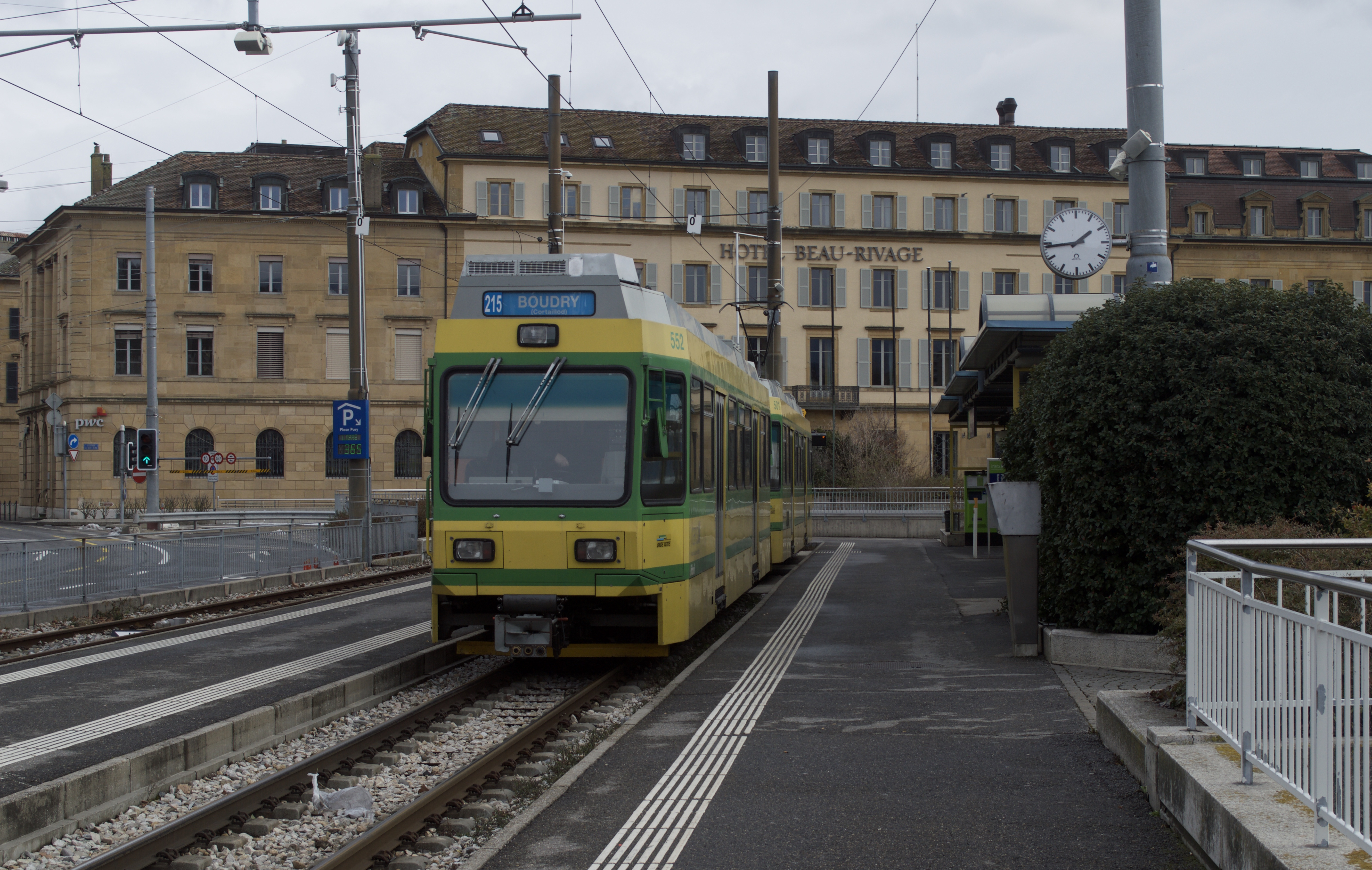 Approximately 1.2 km from the main SBB station at Neuchâtel is Place Pury located on the rather picturesque waterfront of Lac de Neuchâtel. From here is a light railway running parallel with the lake through to Boudry. Operated by Transports Publiques Neuchâtelois (or transN) who also run two other metre gauge lines in the region plus buses, trolleybuses and a funicular railway in Neuchâtel. This was formerly known as Tramways de Neuchâtel (TN) then later became Transports Publiques du Littorail Neuchâtelois (TPLN). Seen here is powered car no. 501 "Boudry" with a driving trailer behind on train 6708, 13:50 Neuchâtel Place Pury to Boudry Littorail. Photo taken 3 February 2019.